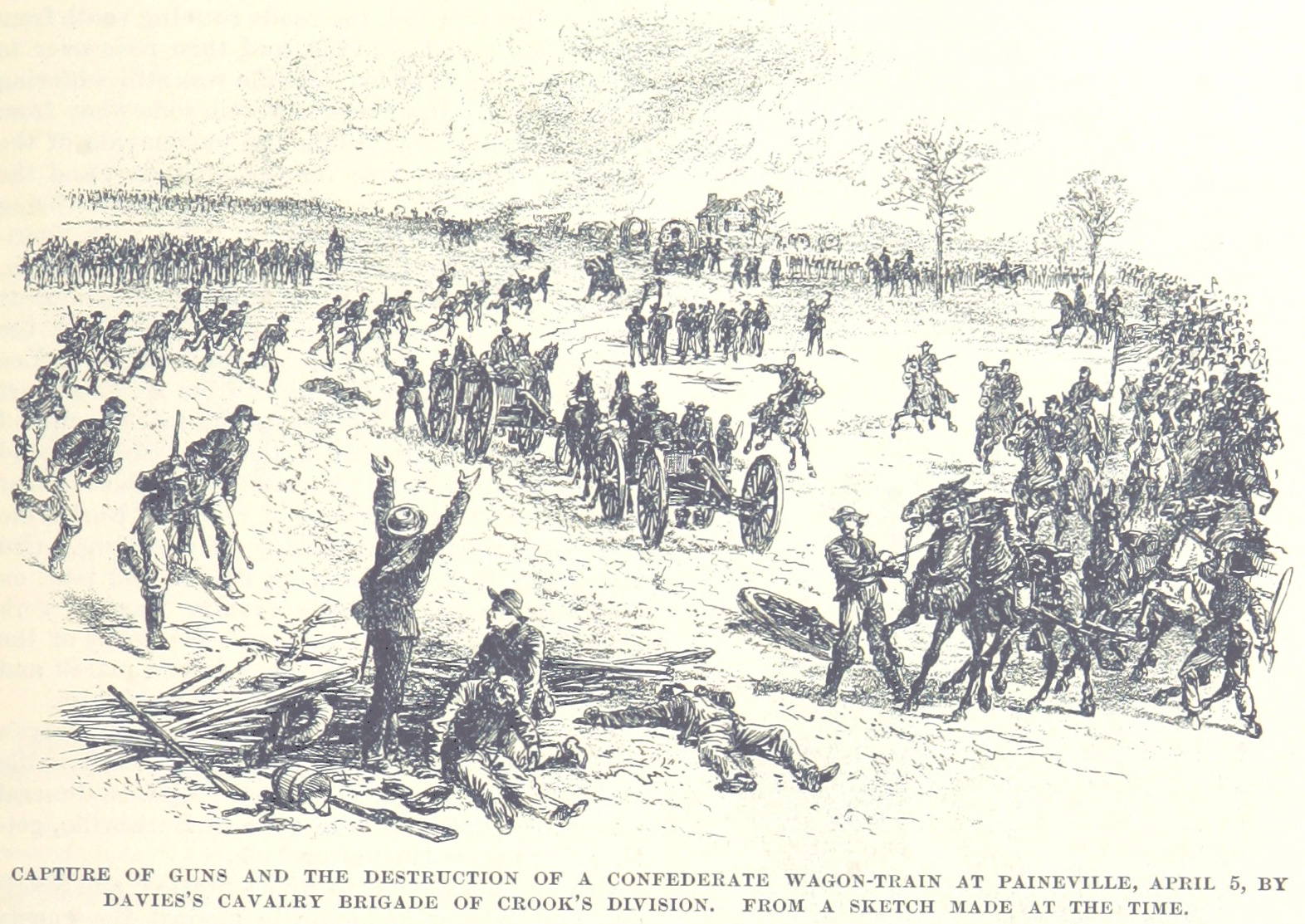 During the Appomattox Campaign of the American Civil War, Union cavalry captures Confederate guns and burns a wagon train near Paineville, Virginia.